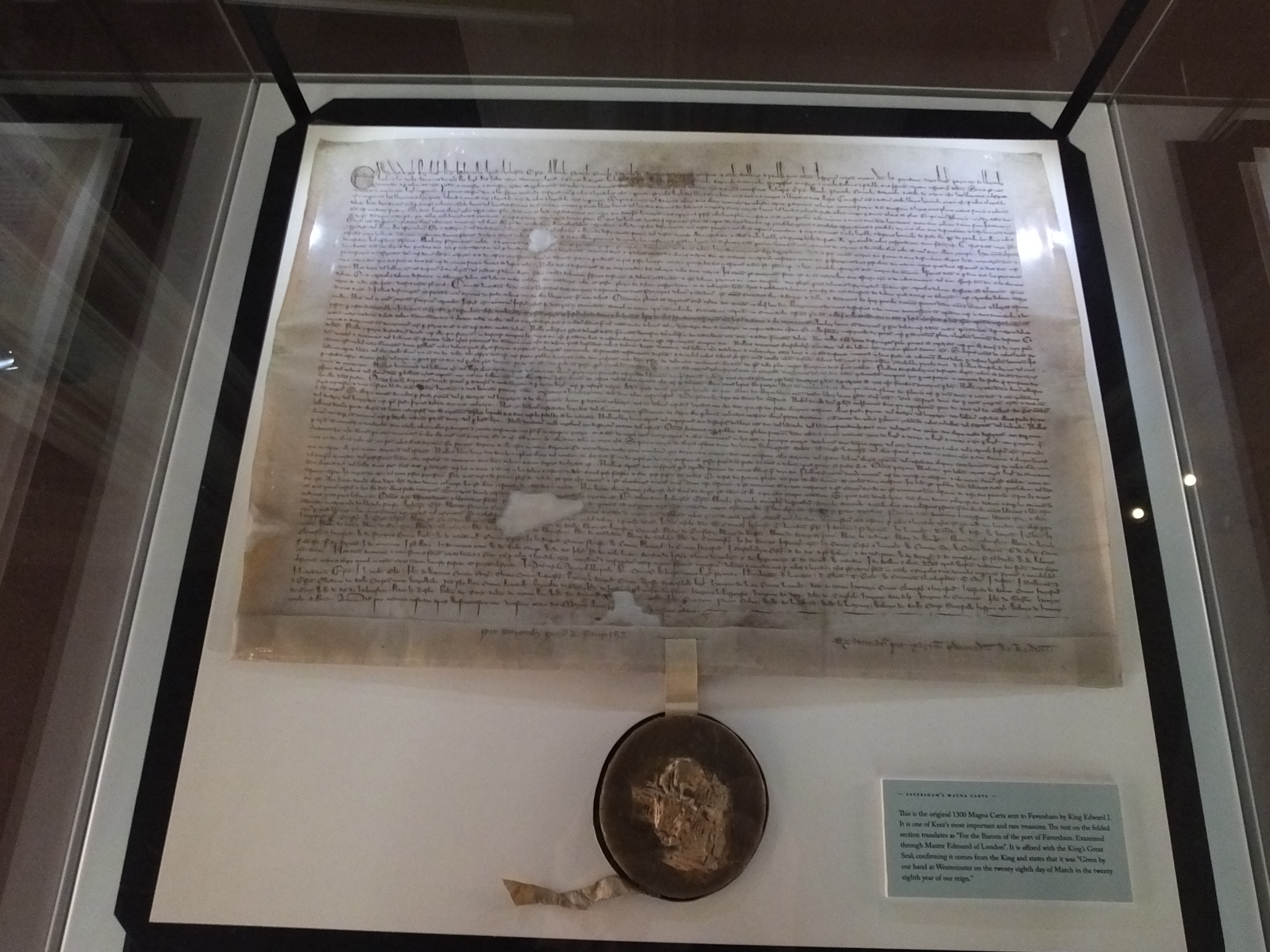 Magna Carta exhibition in Rochester Cathedral November 2015. The Faversham 1300 Magna Carta was displayed under glass with the Textus Roffensis and illustrations of other editions.